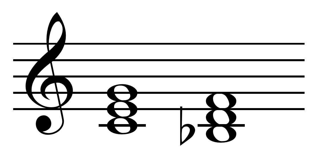 Tonic and subtonic in C. Created by Hyacinth (talk) 03:17, 22 May 2010 using Sibelius 5.